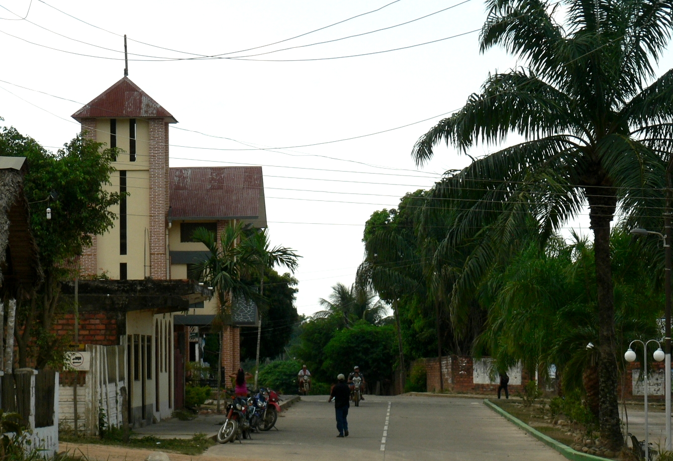 The main square of San Buenaventura, La Paz, Bolivia.